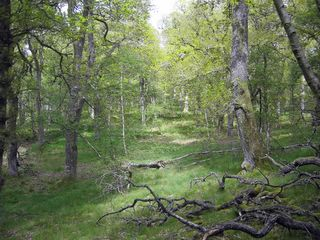 A picture of Dinnet Oakwood.